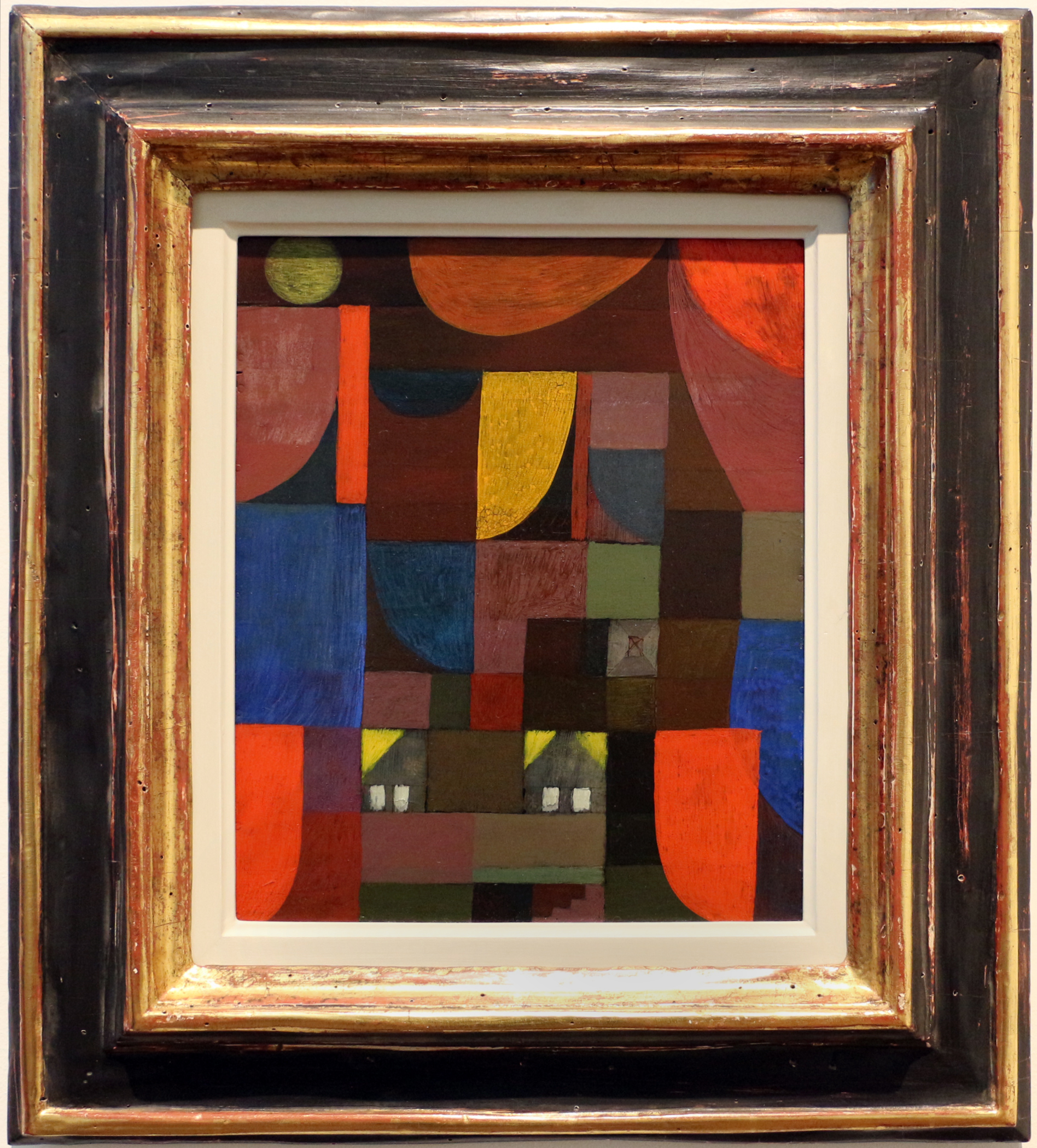 Paintings in the Toledo Museum of Art